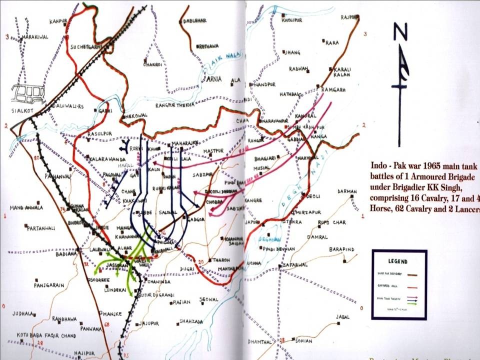 1965 War Sketch